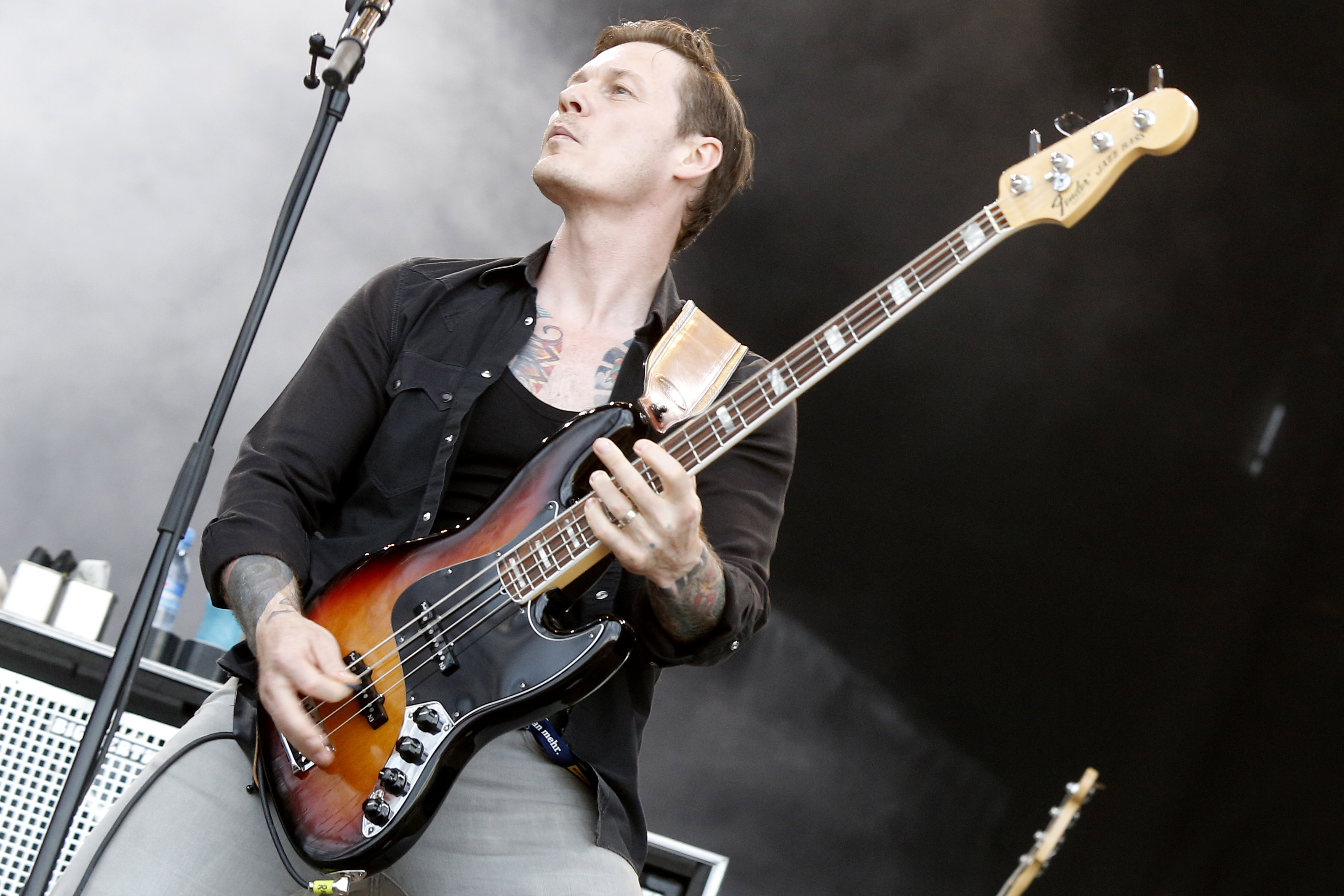 Richard Jones, bassist and backing vocalist of Welsh band Stereophonics at Nova Rock-Festival 2013.